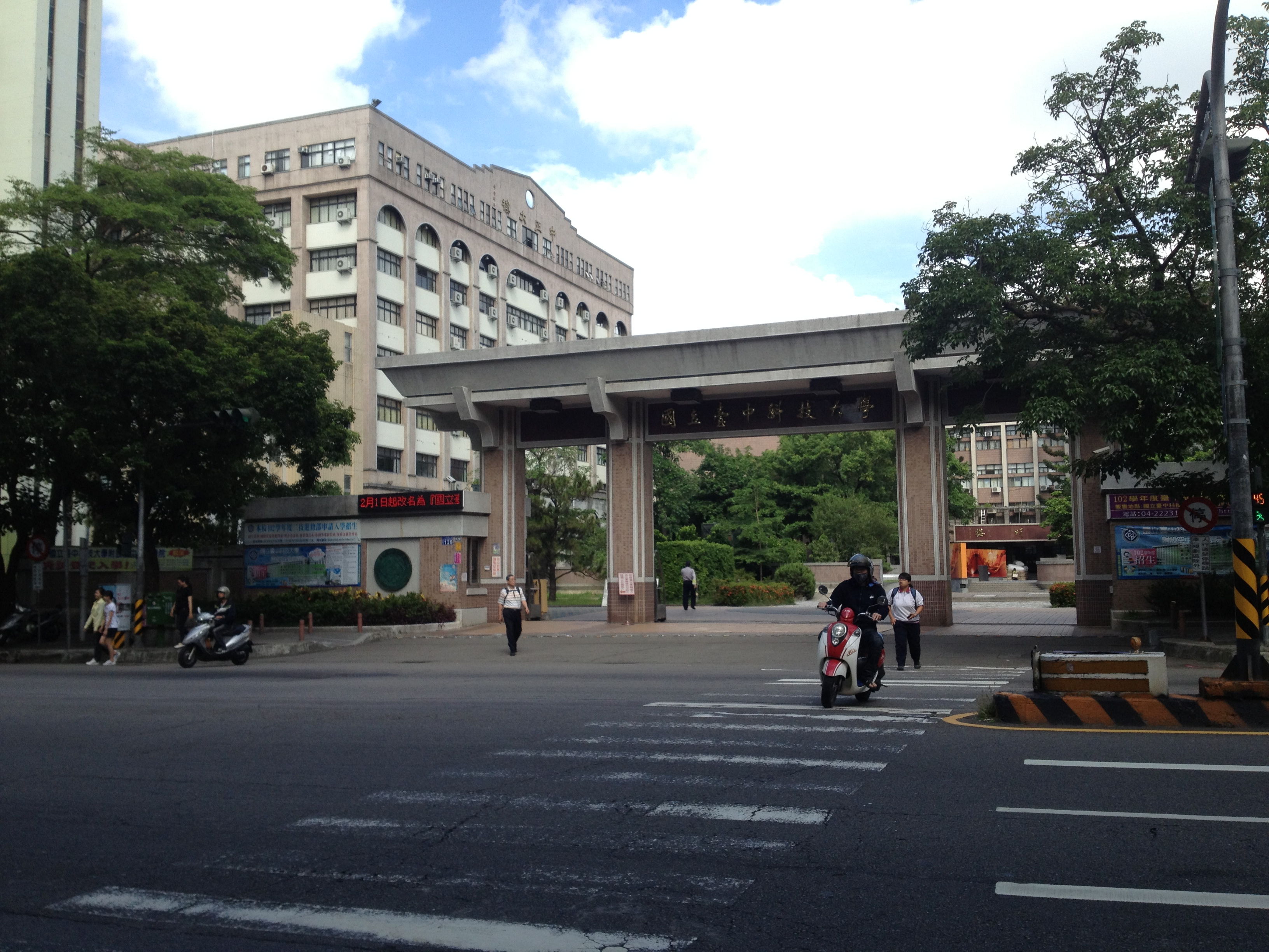 National Taichung University of Science and Technology Front Gate